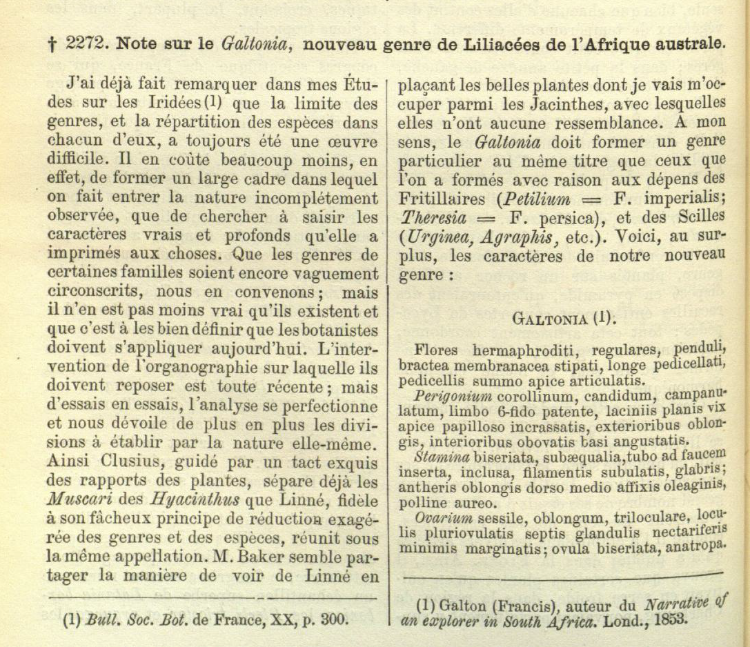 Original description of Galtonia by J Decaisnes (First page)